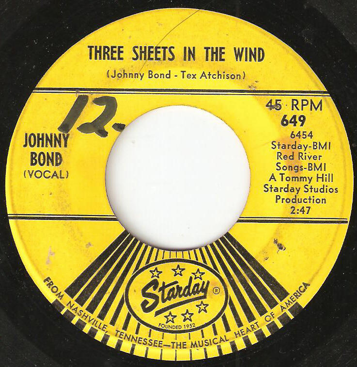 Three Sheets In the Wind by Johnny Bond, Starday 1963.